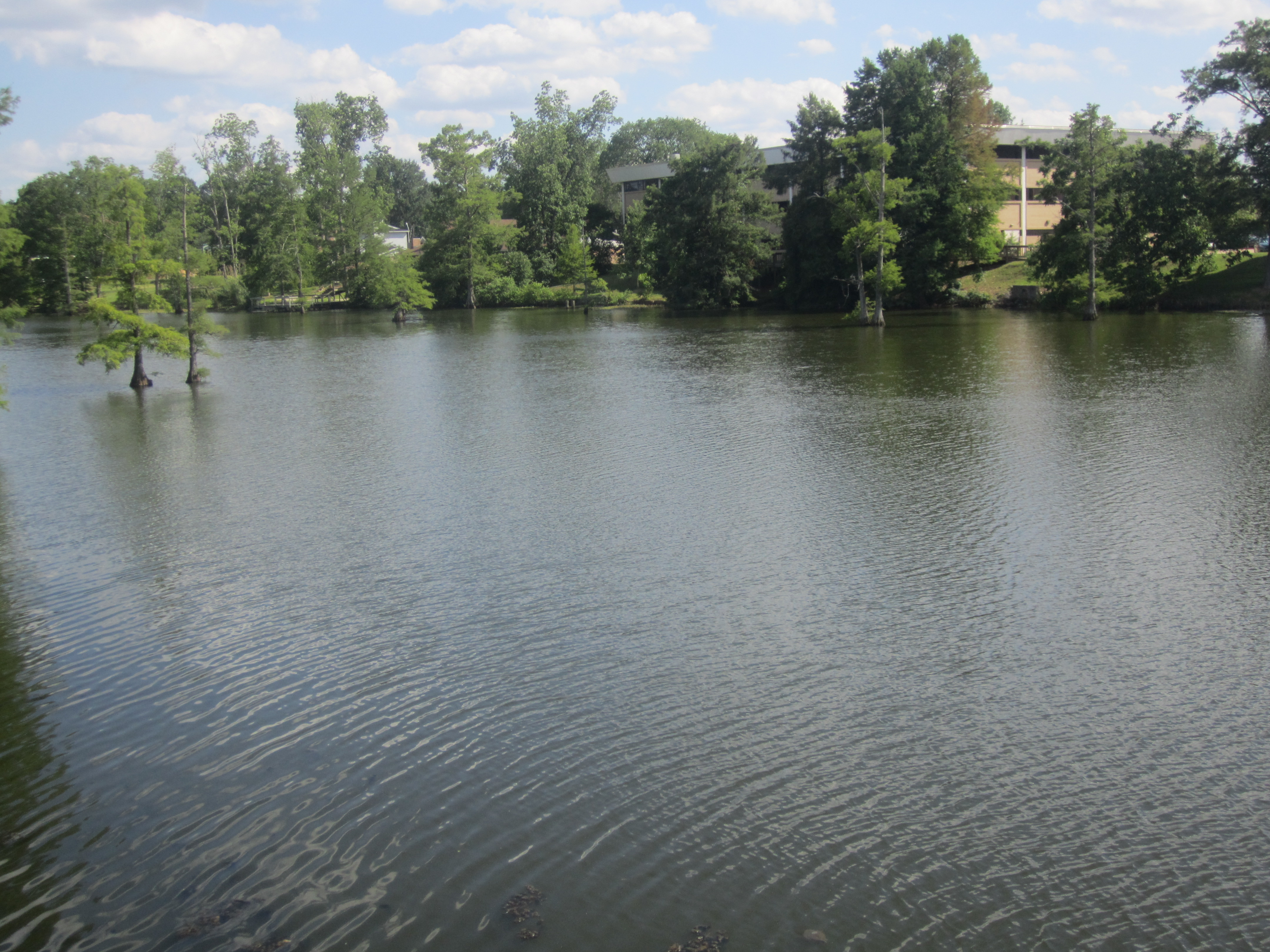 I took photo of Bayou Desiard in Monroe, LA, with Canon camera.